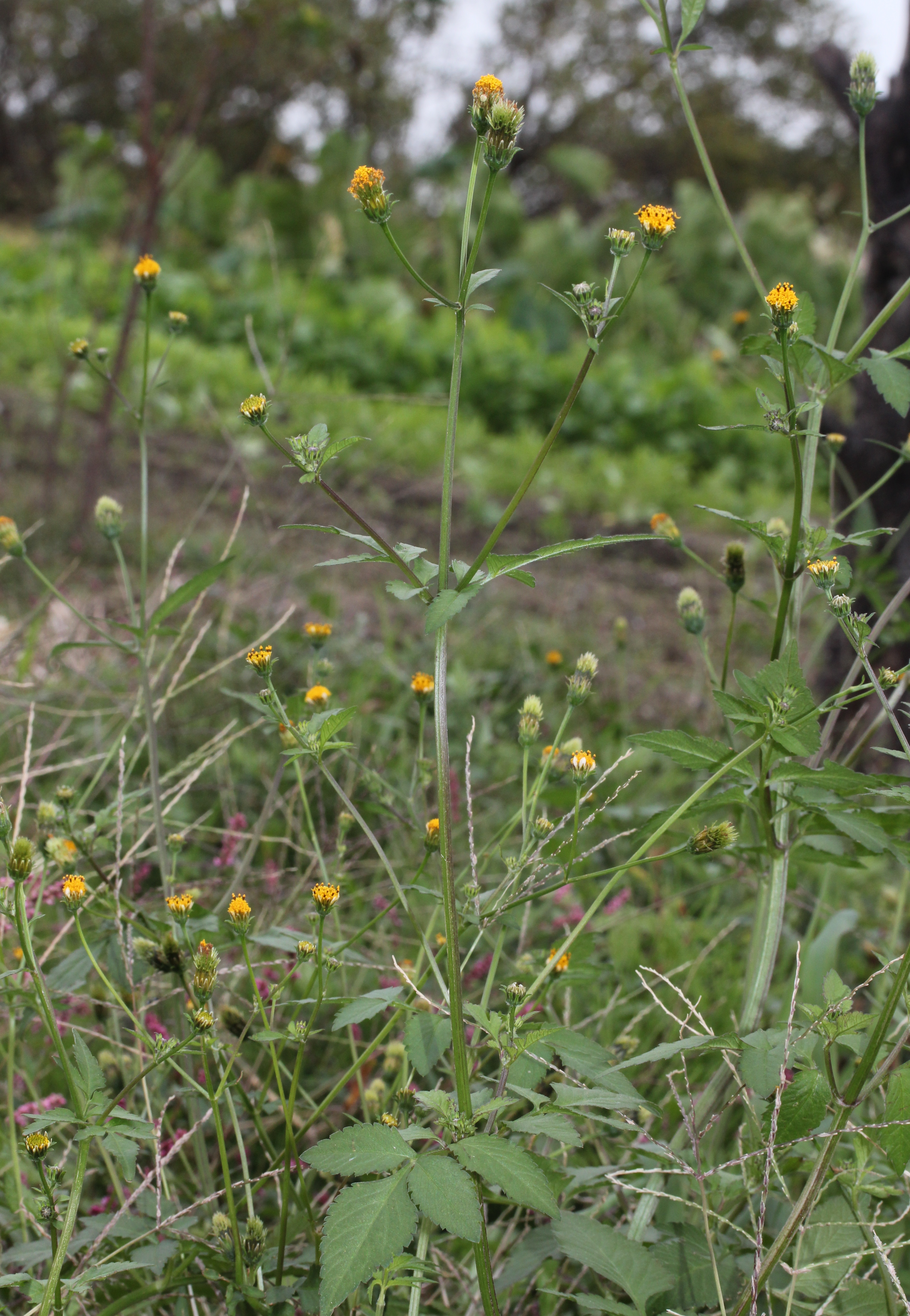 Bidens pilosa var. pilosa, in Japan.